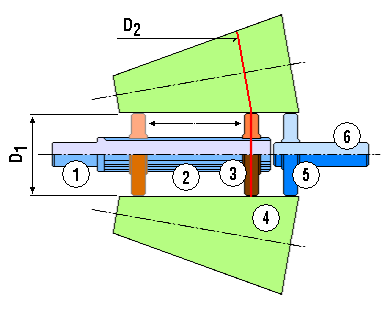 Gear box (variator)